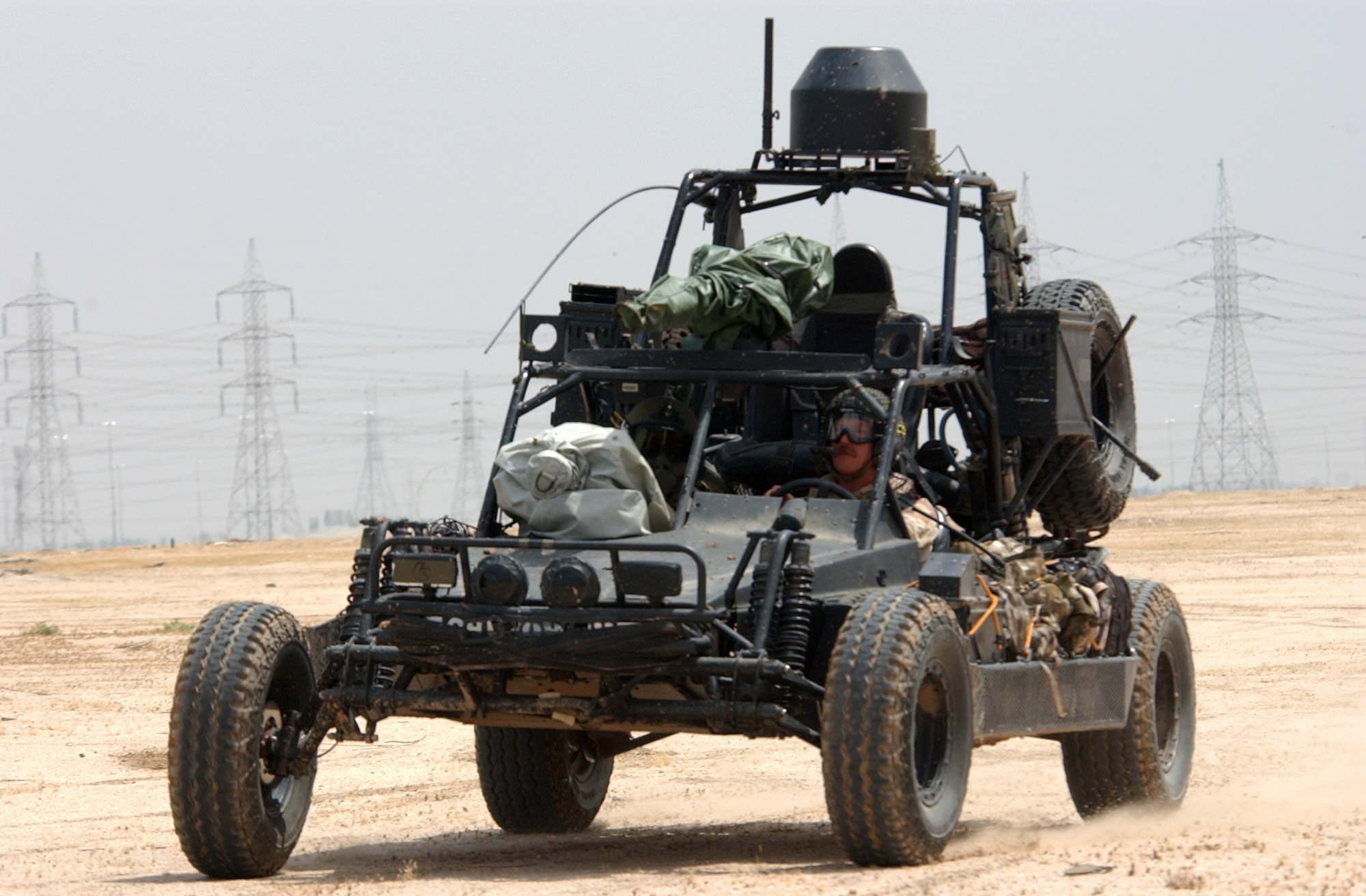 020413-N-5362A-007 Camp Doha, Kuwait (Feb. 13, 2002) - U.S. Navy SEALs (SEa, Air, Land) operate Desert Patrol Vehicles (DPV) while preparing for an upcoming mission. Each “Dune Buggy" is outfitted with complex communication and weapon systems designed for the harsh desert terrain. Special Operations units are characterized by the use of small units with unique ability to conduct military actions that are beyond the capability of conventional military forces. SEALs are superbly trained in all environments, and are the master’s of maritime Special Operations. SEALs are required to utilize a combination of specialized training, equipment, and tactics in completion of Special Operation missions worldwide. Navy SEALs are currently forward deployed in support of Operation Enduring Freedom (OEF). U.S. Navy photo by Photographer's Mate 1st Class Arlo Abrahamson. (RELEASED).